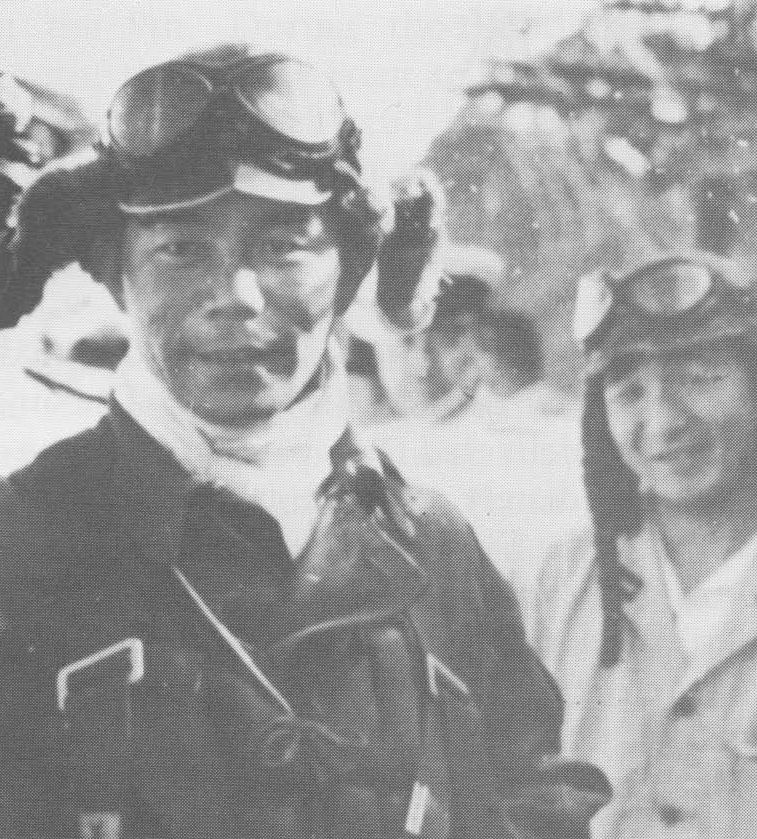 Imperial Japanese Navy fighter pilot Lieutenant Kenjiro Notomi. Notomi was a fighter division officer with the light aircraft carrier Shoho, then the same position on light carrier Ryujo and then fighter group leader with aircraft carrier Zuikaku from November 1942 to November 1943. He was killed during the Ro operation in November 1943.